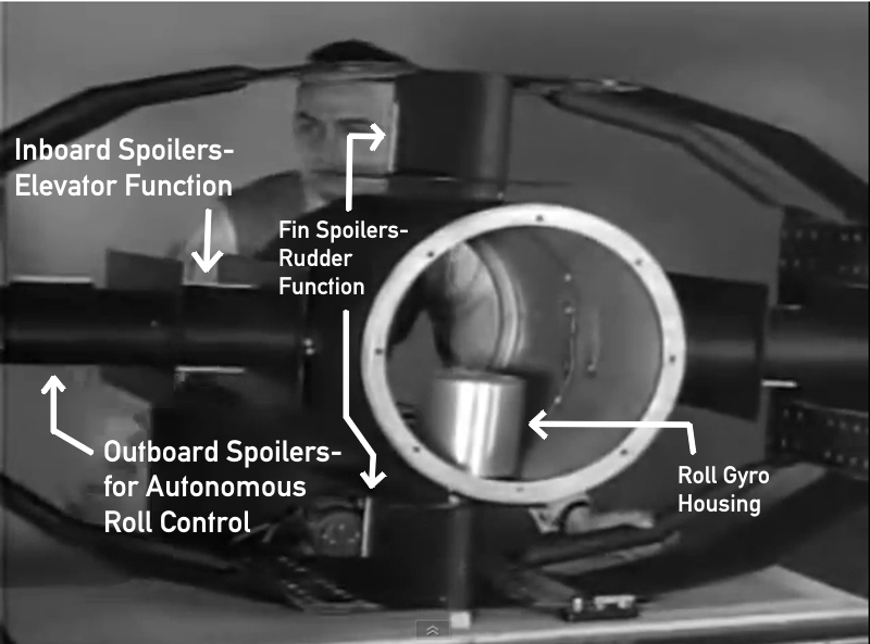 Frame from "Wright Field Film# 12-105, USAAF Wright Field Air Technical Service Command, T-2 Intelligence Department Captured Film, 'Fritz X' German Radio-Controlled Dive Bomb", 15:18 in length, released in 1946. Frame is at 14:15 from start, used as the basis for my added annotations to a still frame from a United States Army Air Force-created motion picture work, from captured German film footage, issued by what is today the Wright-Patterson Air Force Base. Information for the text and graphics that I added to detail the Friz-X ordnance's tail surface control setup is from the film's narration, from 13:45 to 15:00 timeframe of the film. Original film is viewable at YouTube. As the source of the original images is from a unit of what is today the U.S. Department of Defense, the original image (before the text/line annotations were applied by me) should be a public domain still image from what I understand, free from any copyright within the United States.